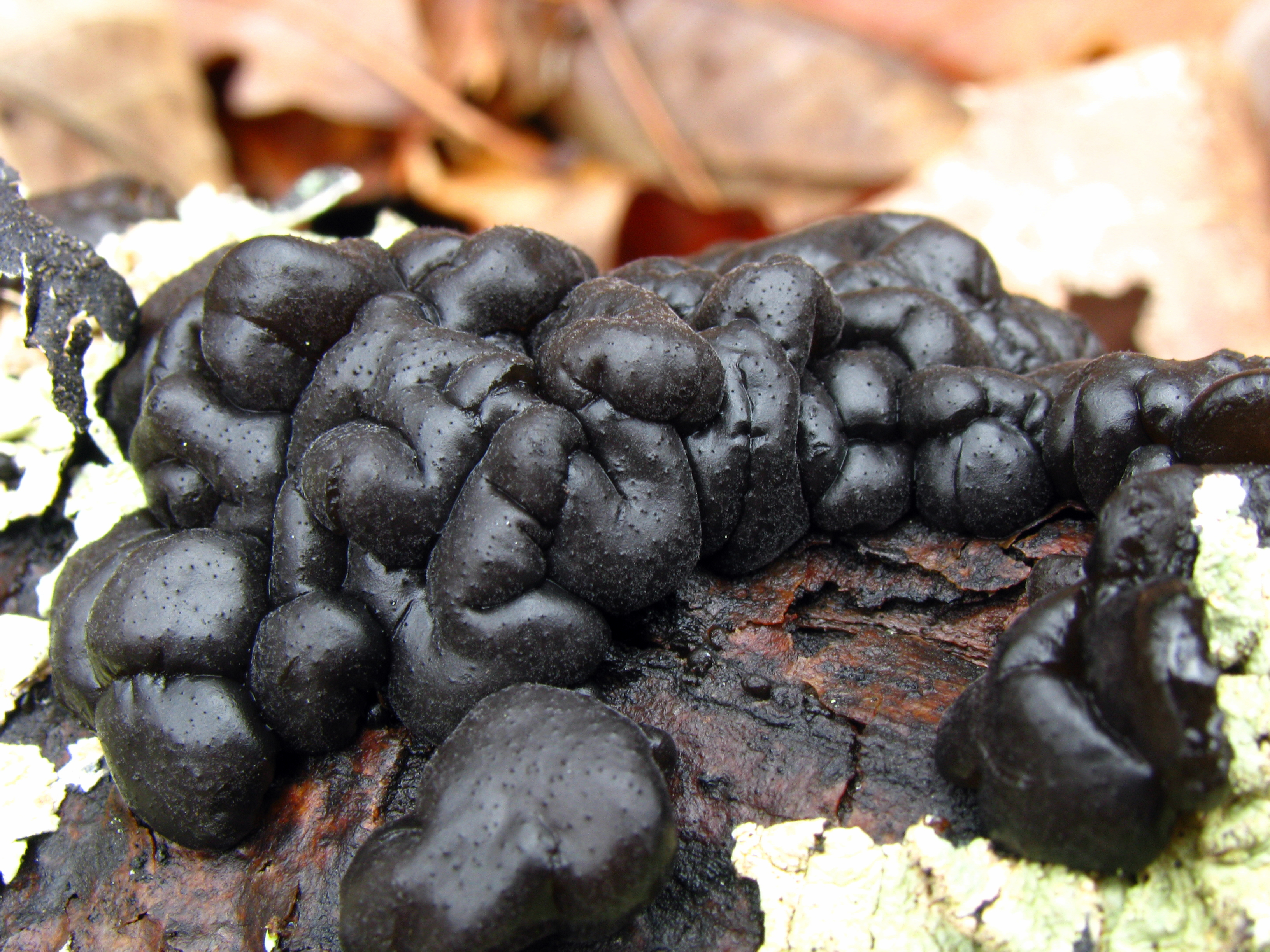 The jelly fungus Exidia glandulosa (Bull.) Fr. Specimen photographed in Strouds Run State Park, Athens, Ohio, USA.